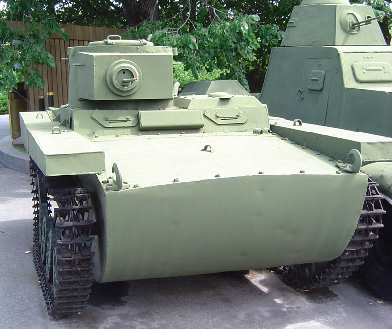 Soviet T-37 light amphibious tank (maket), on display near the Museum of the Great Patriotic War in Kiev, Ukraine.